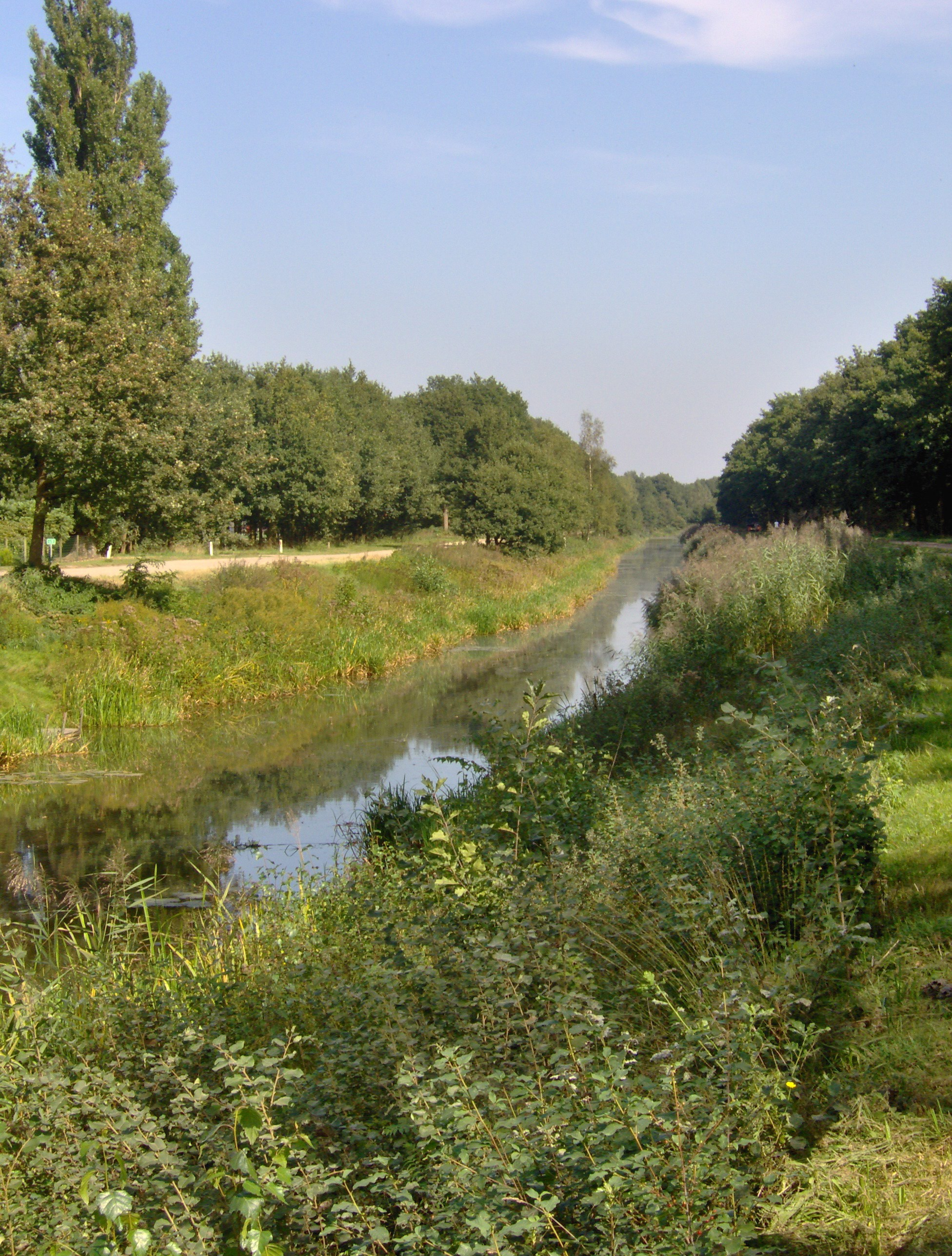 The Kanaal Almelo-Nordhorn, the canal between Almelo (Overijssel, the Netherlands) and Nordhorn (Lower Saxony, Germany). Photo taken near Albergen, northeast of Almelo.